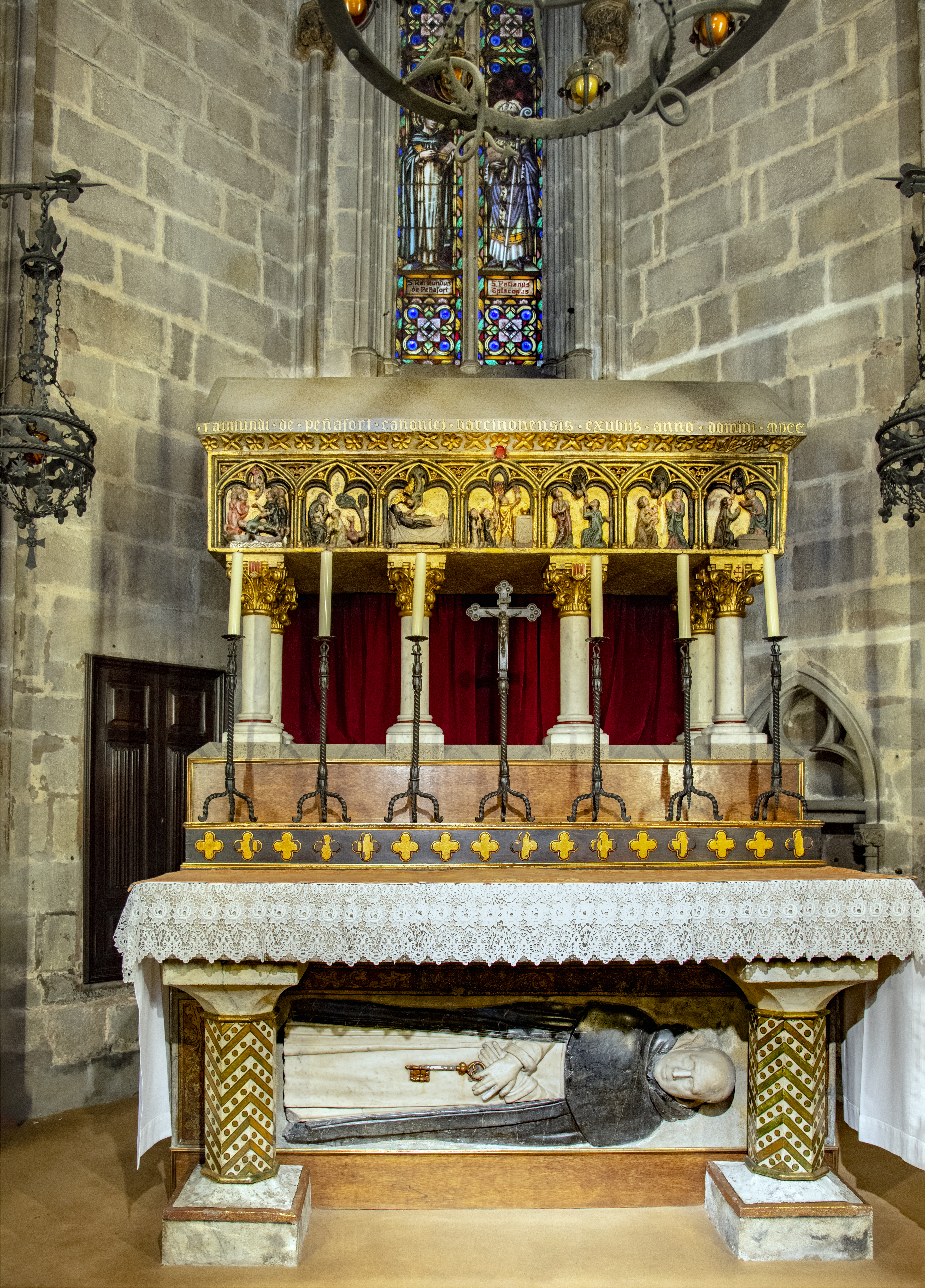 The Cathedral of the Holy Cross and Saint Eulalia in Barcelona. Chapel of Sant Ramon de Penyafort. Under the altar of this chapel is the lying sculpture of Sant Ramon, embossed on a slab. On the altar, the polychrome white marble sarcophagus, with scenes in relief of the life of the saint, dated from the fourteenth century. The two pieces come from the old Convent of Santa Caterina de Barcelona of the Dominican Order.